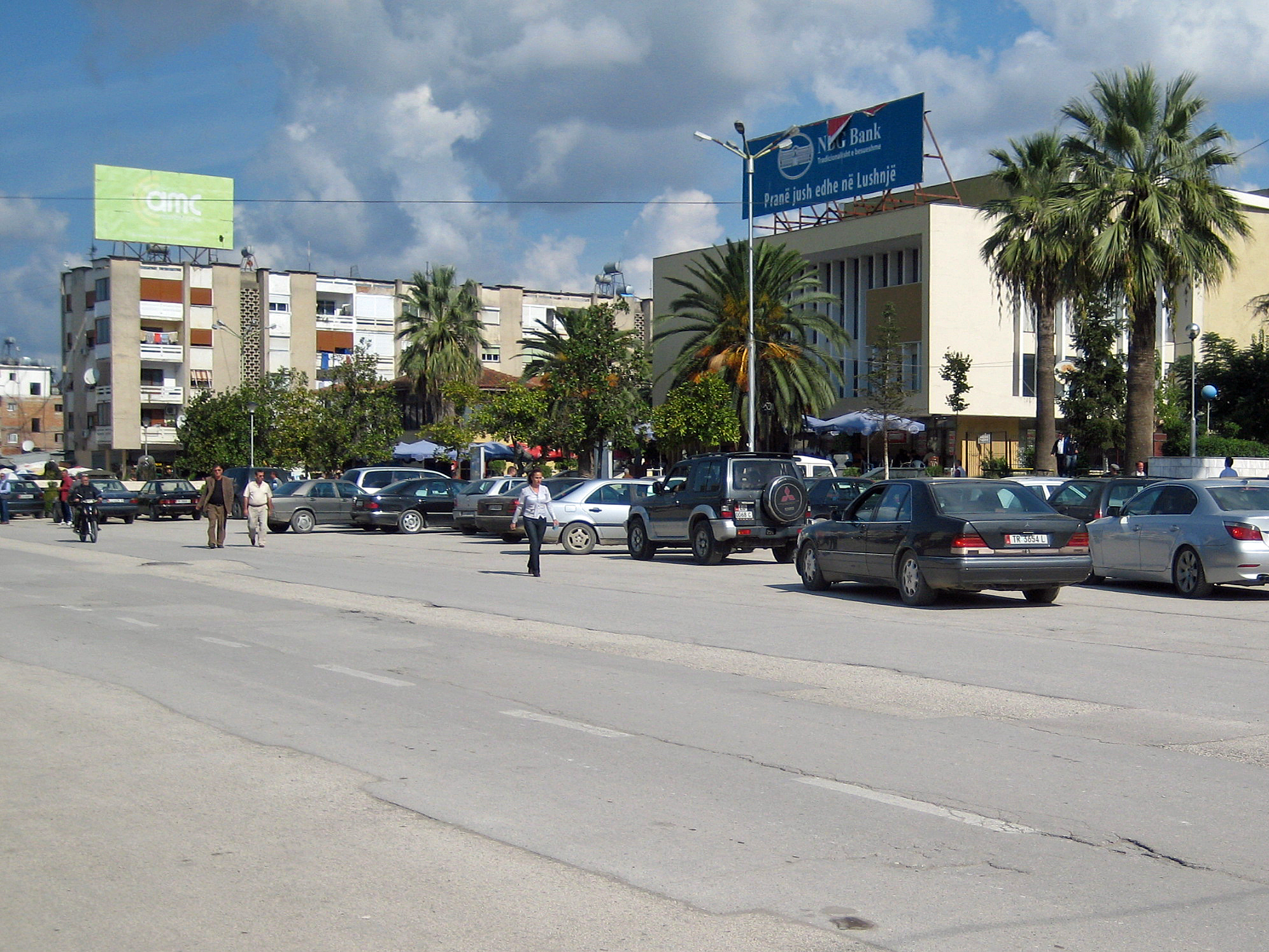 City Center of Lushnja, Albania